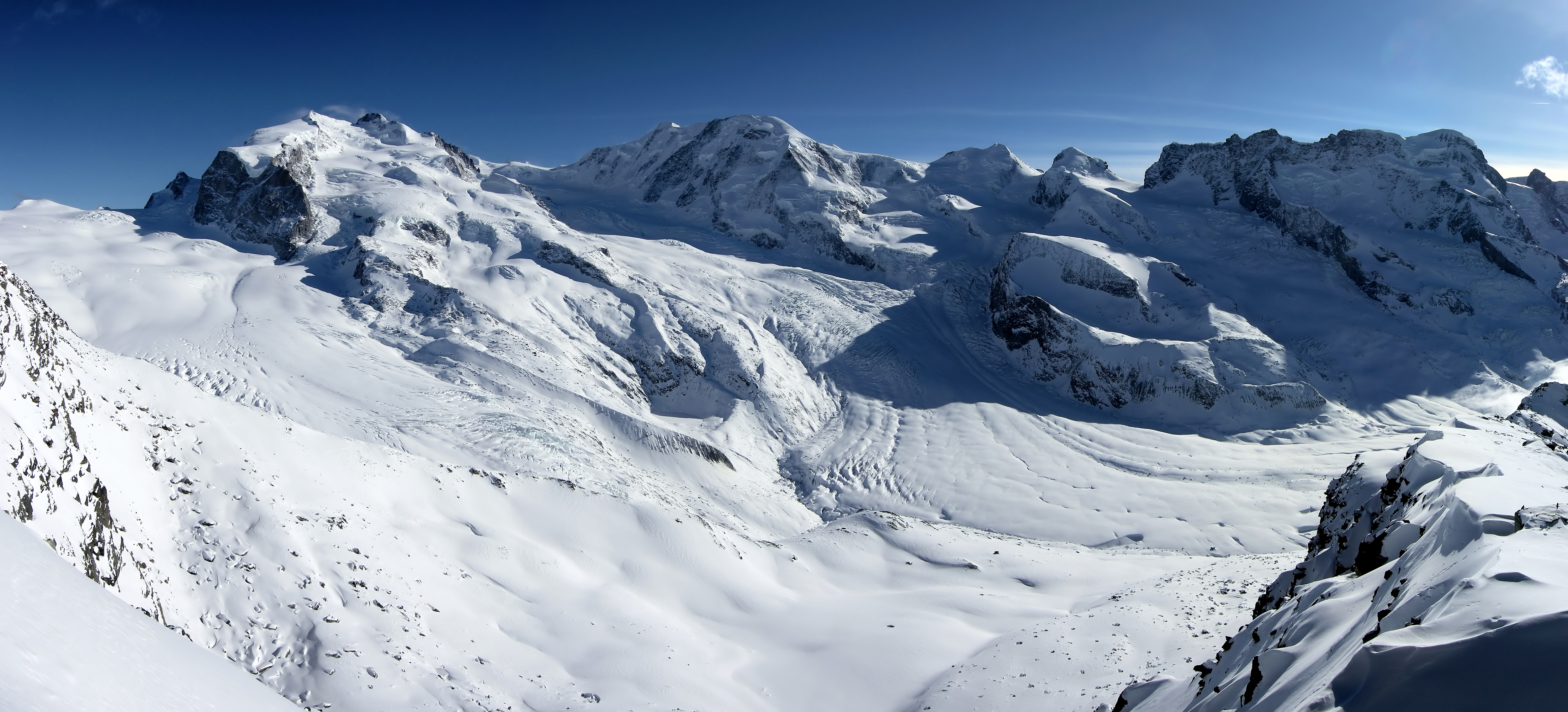 panoramic view from Gornergrat station (3110 m) in the ski-region Zermatt: on the left hand the Monte Rosa Massif with its Dufourspitze which is with its 4633,9 m the highest mountain in Switzerland and second highest mountain in the Alps and western Europe